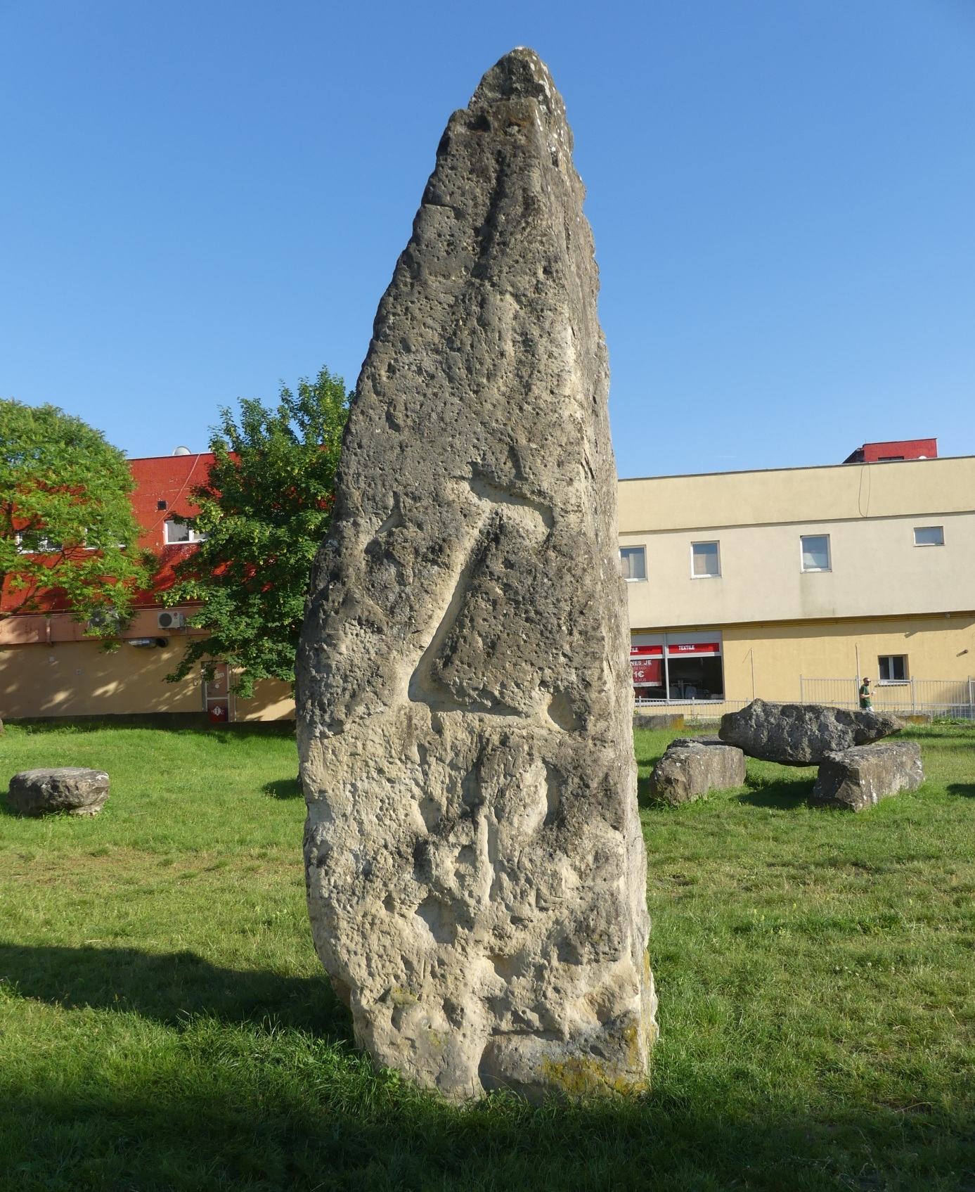 Holic's sanctuary3